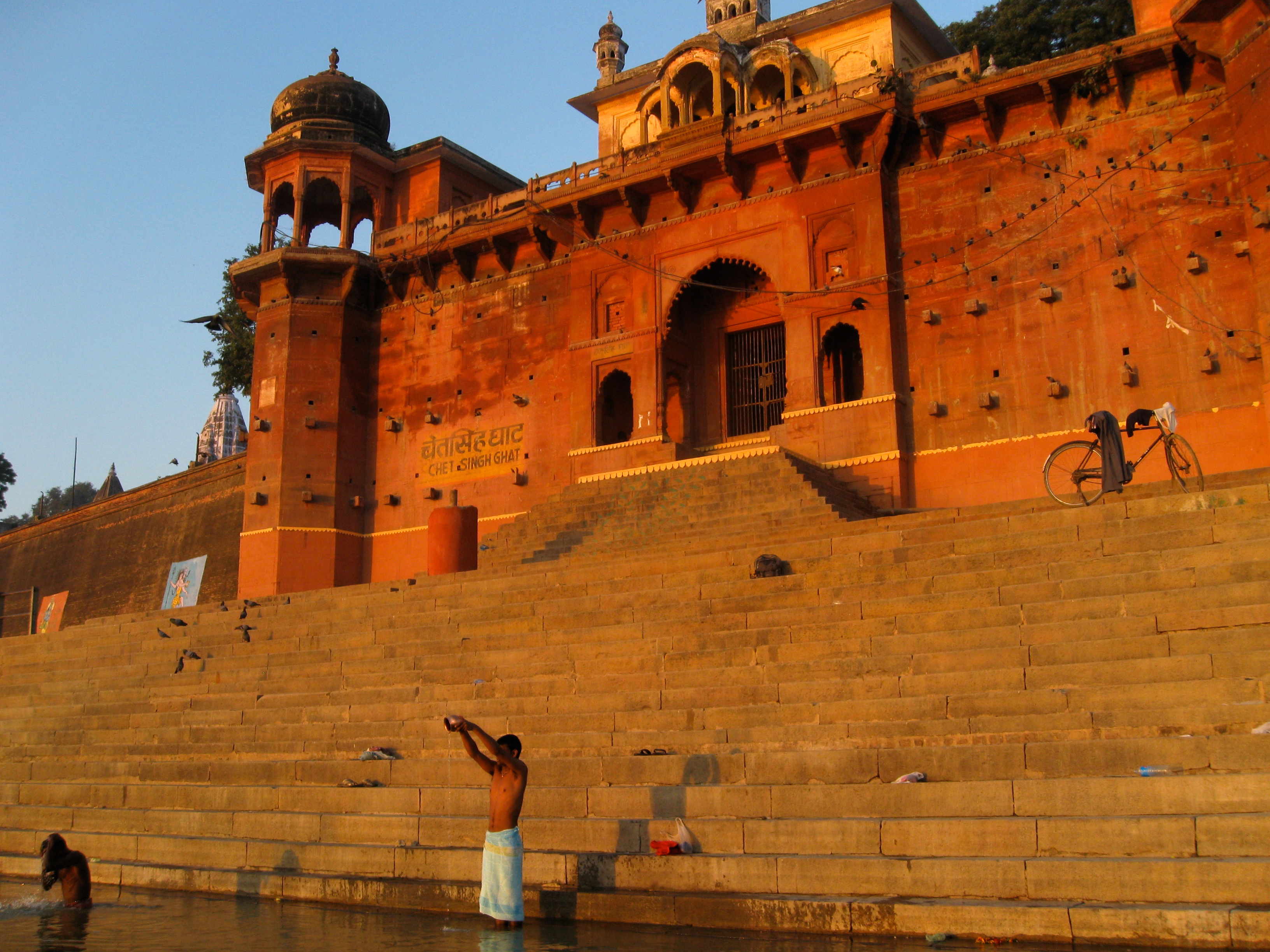 Varanasi - dawn on the riverside